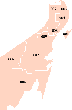 Municipalities of Quintana Roo